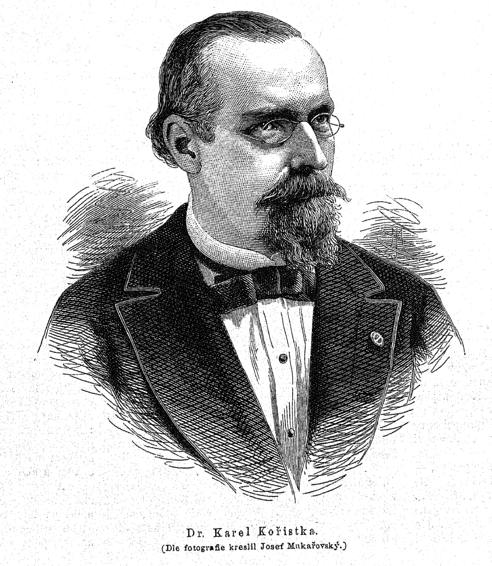 Portrait of Karel Kořistka, professor of geodesy, mathematics and geometry in Prague.